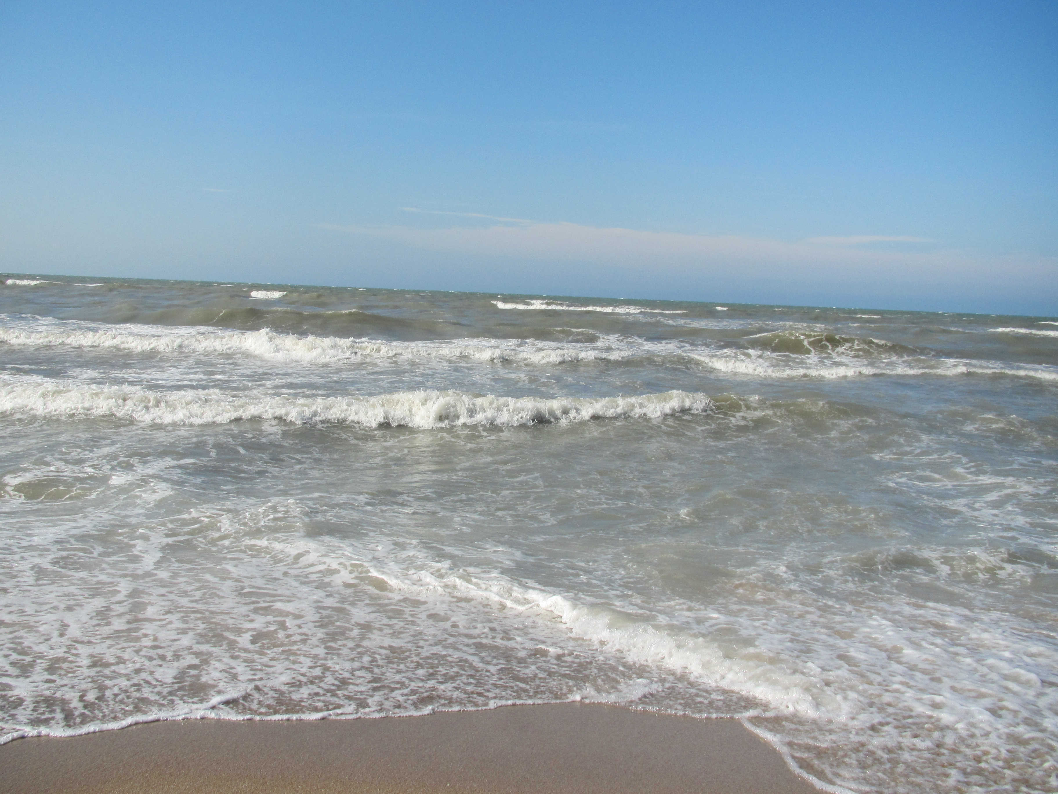 Caspian sea